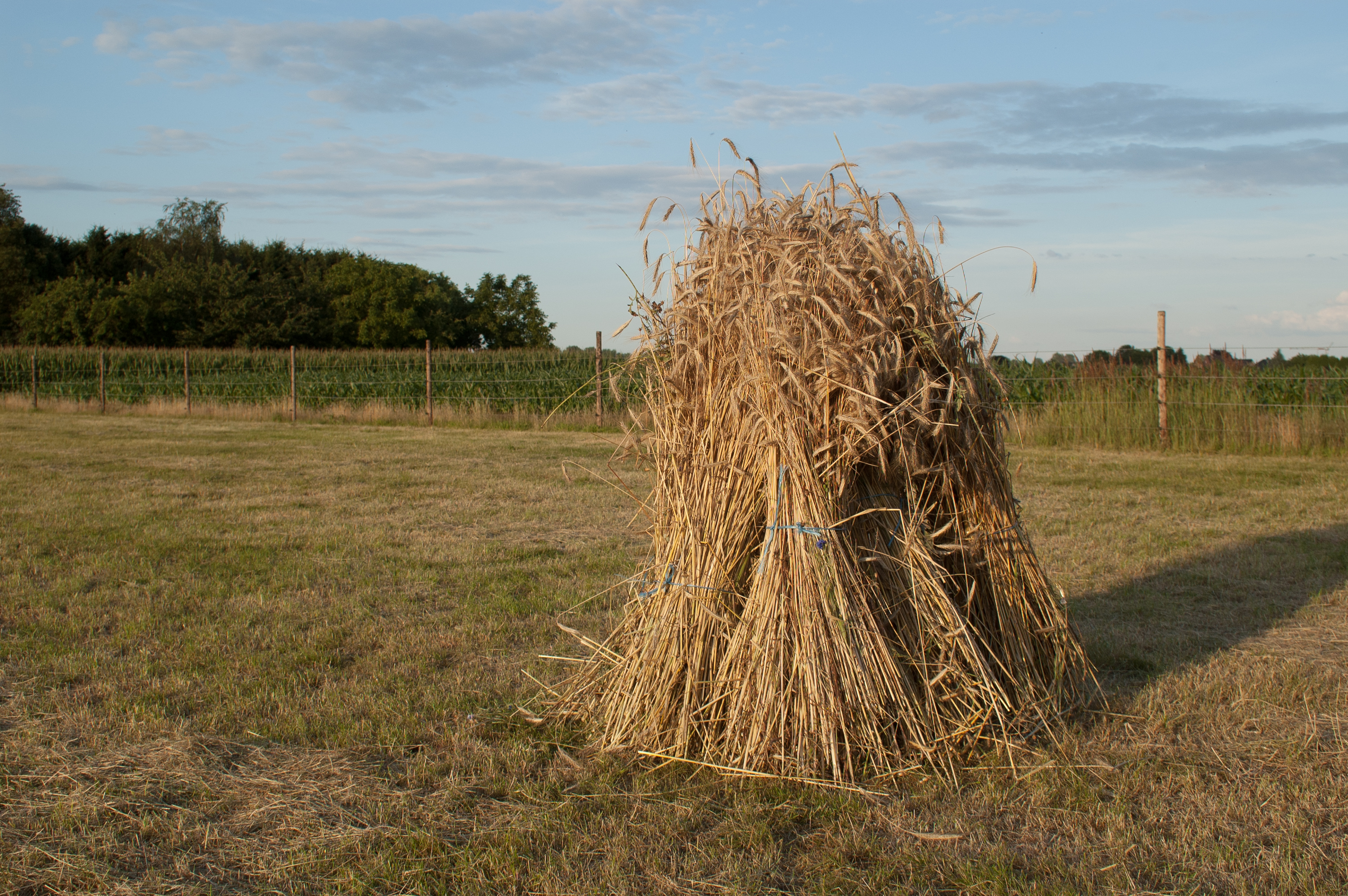 Rye garbs